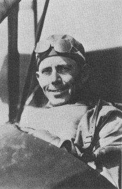 United States Navy aviation pioneer Lieutenant junior grade Richard C. Sauflet in the cockpit of an unidentified aircraft.